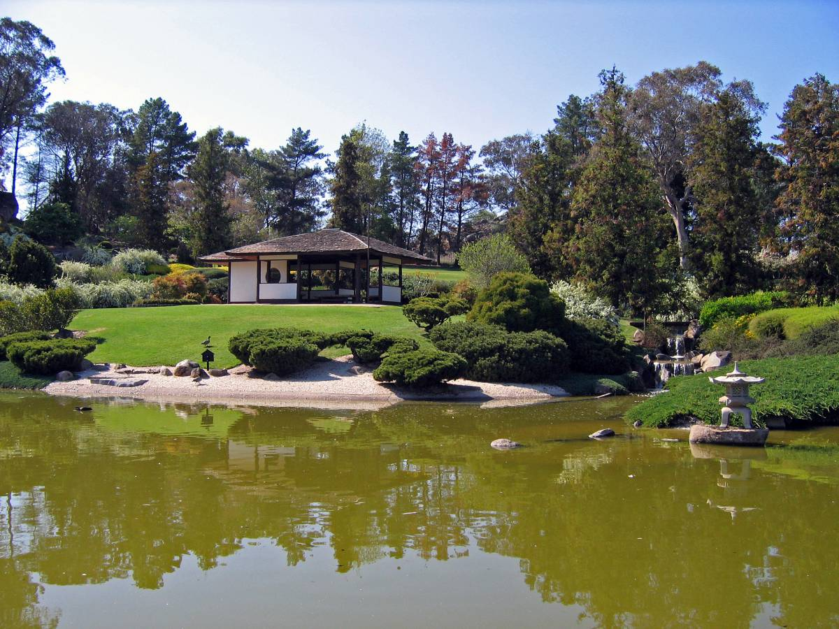 Lake with stone lantern and teahouse at the Japanese Gardens, Cowra, NSW, Australia, 22 September, 2006.